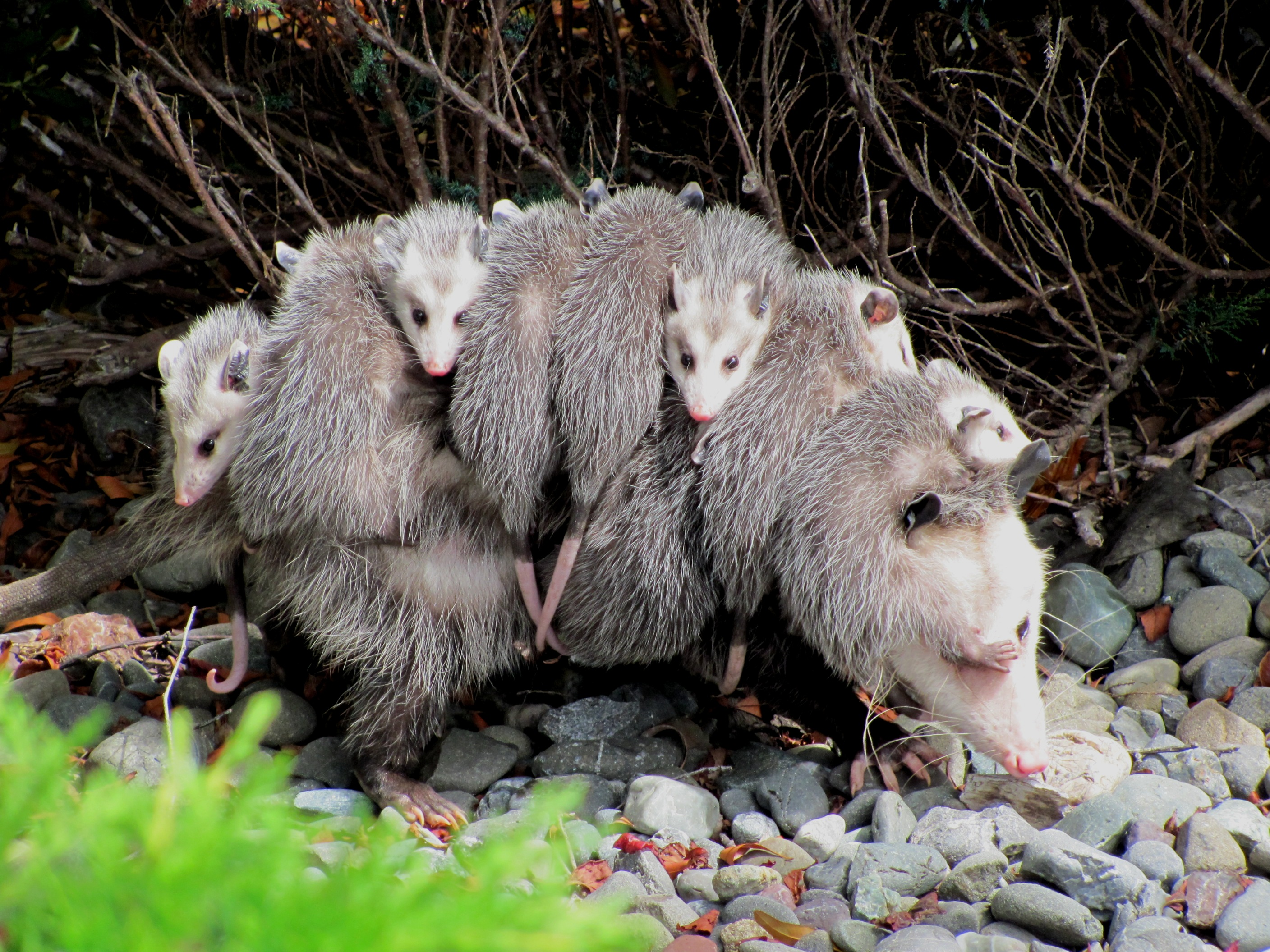 This image was taken during the day (the Virginia opossum is mostly nocturnal). The mother is carrying 8 young on her back.